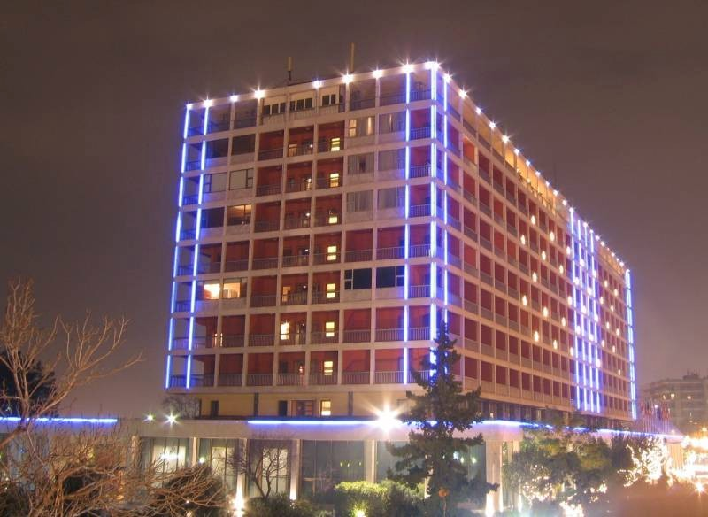 Makedonia Palace Hotel night view. Thessaloniki, Greece. Photo taken in 2006.